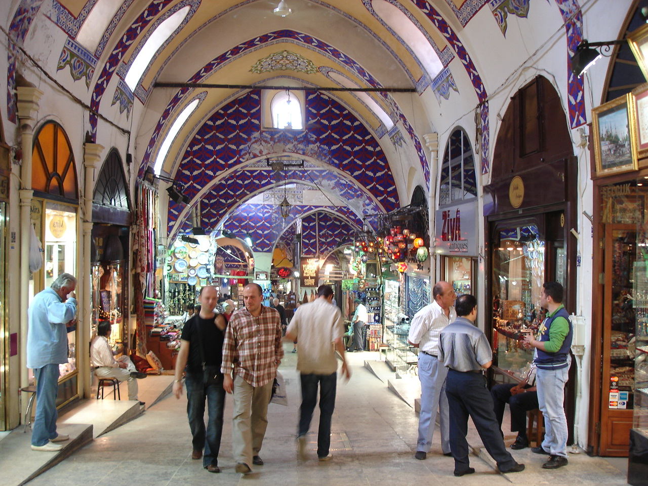 Istanbul Grand Bazaar. Picture by: Giovanni Dall'Orto, May 29 2006.